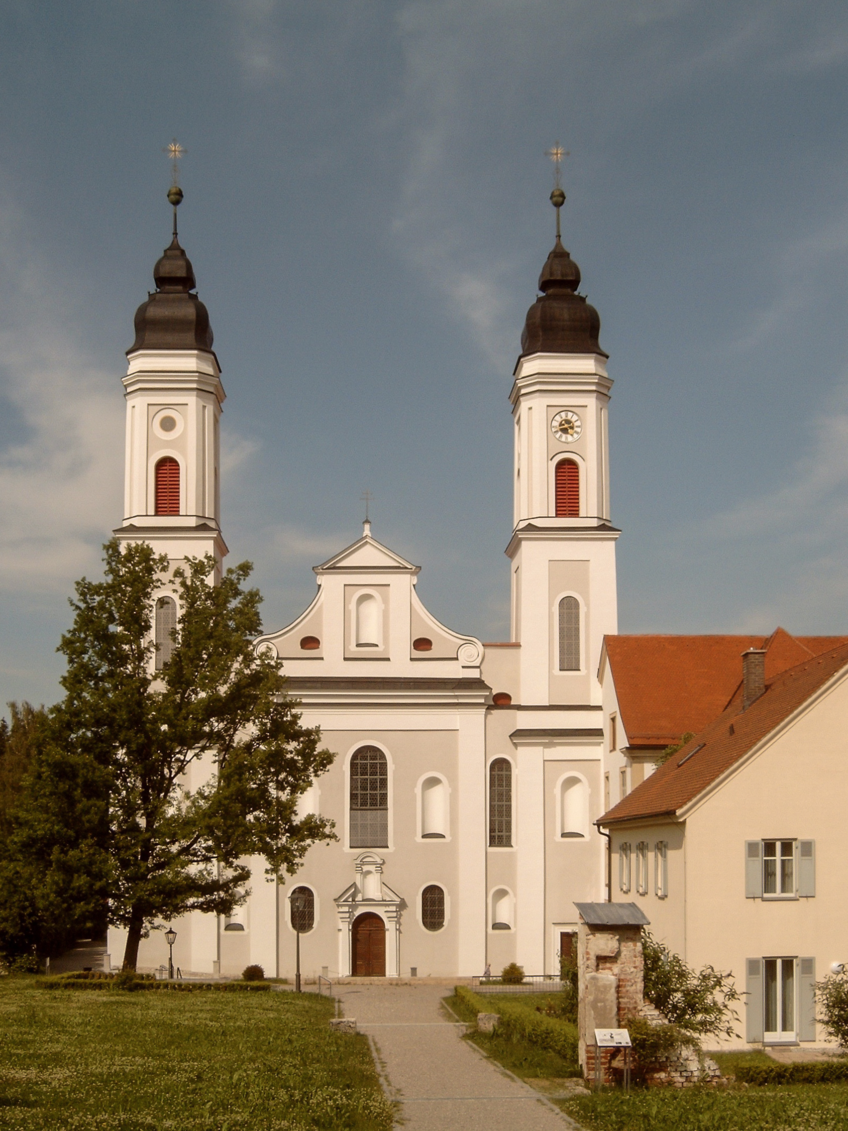 Irsee, church: Klosterkirche